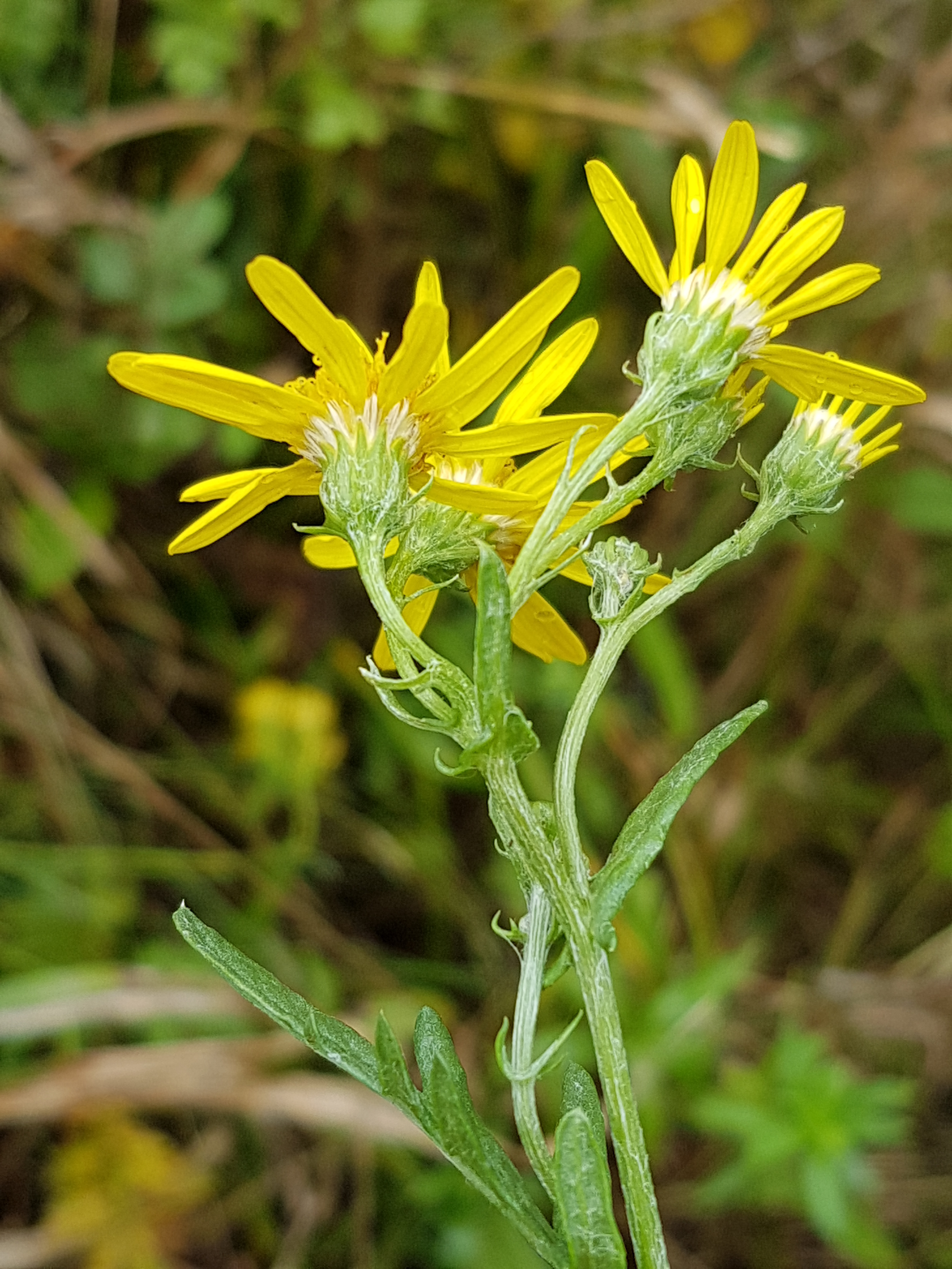 Inflorescence Taxonym: Senecio erucifolius ss Fischer et al. EfÖLS 2008 ISBN 978-3-85474-187-9 Location: Dernberg, Nappersdorf-Kammersdorf, district Hollabrunn, Lower Austria - ca. 250 m ü. A. Habitat: border of a shrubbery